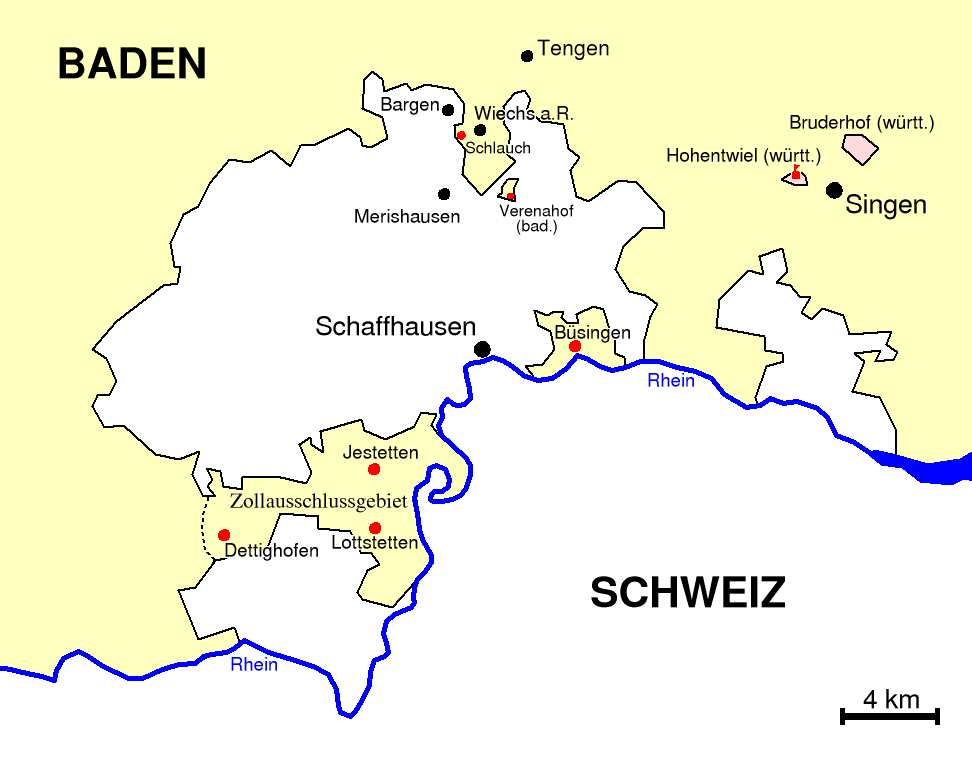 German-Swiss border near Schaffhausen around 1900